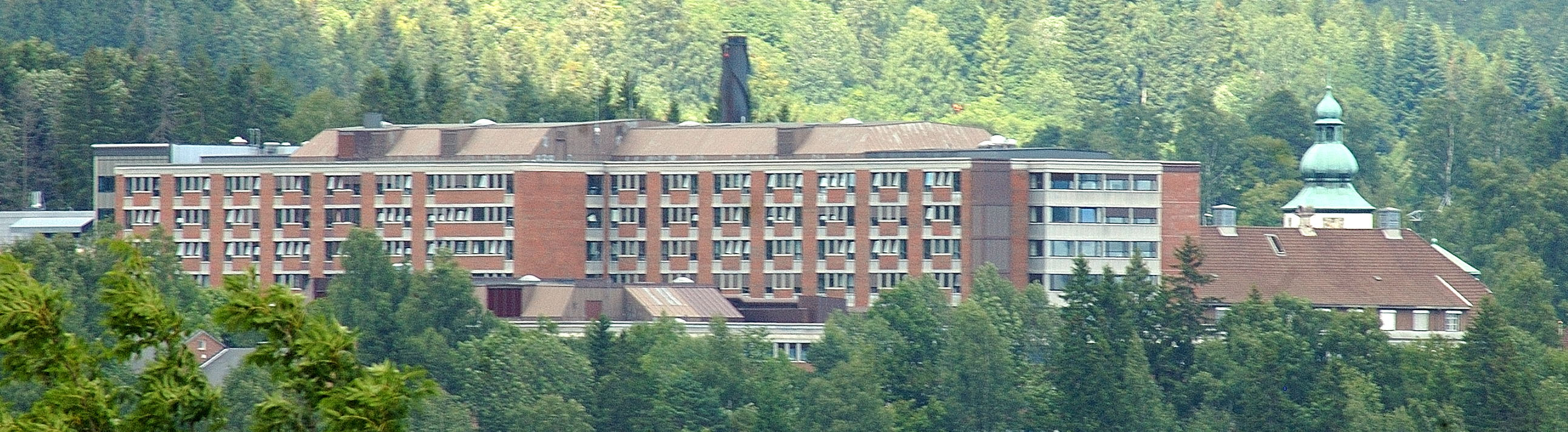 Baerum Hospital, Baerum, Norway